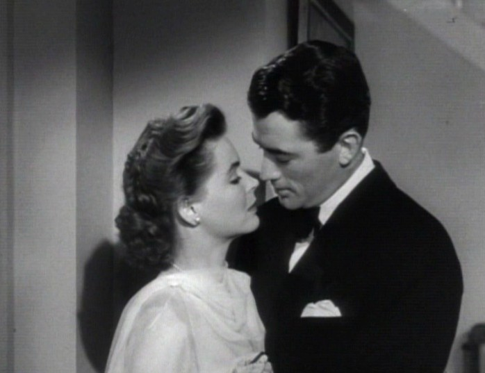 Cropped screenshot of Dorothy McGuire and Gregory Peck from the trailer for the film Gentleman's Agreement.